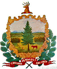 Vermont coat of arms